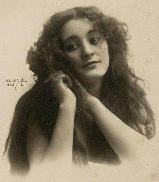 american stage & film actress Eulalie Jensen - publicity still (cropped)